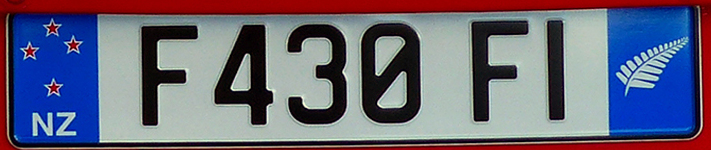 Specifications: year: 2006 make: Ferrari Model: 430 Engine: 4.3 liter V8 Horsepower @ RPM: 490@8500 Torque @ RPM: 5250 0-60 time: 4 sec. Top Speed: 192.6 mph